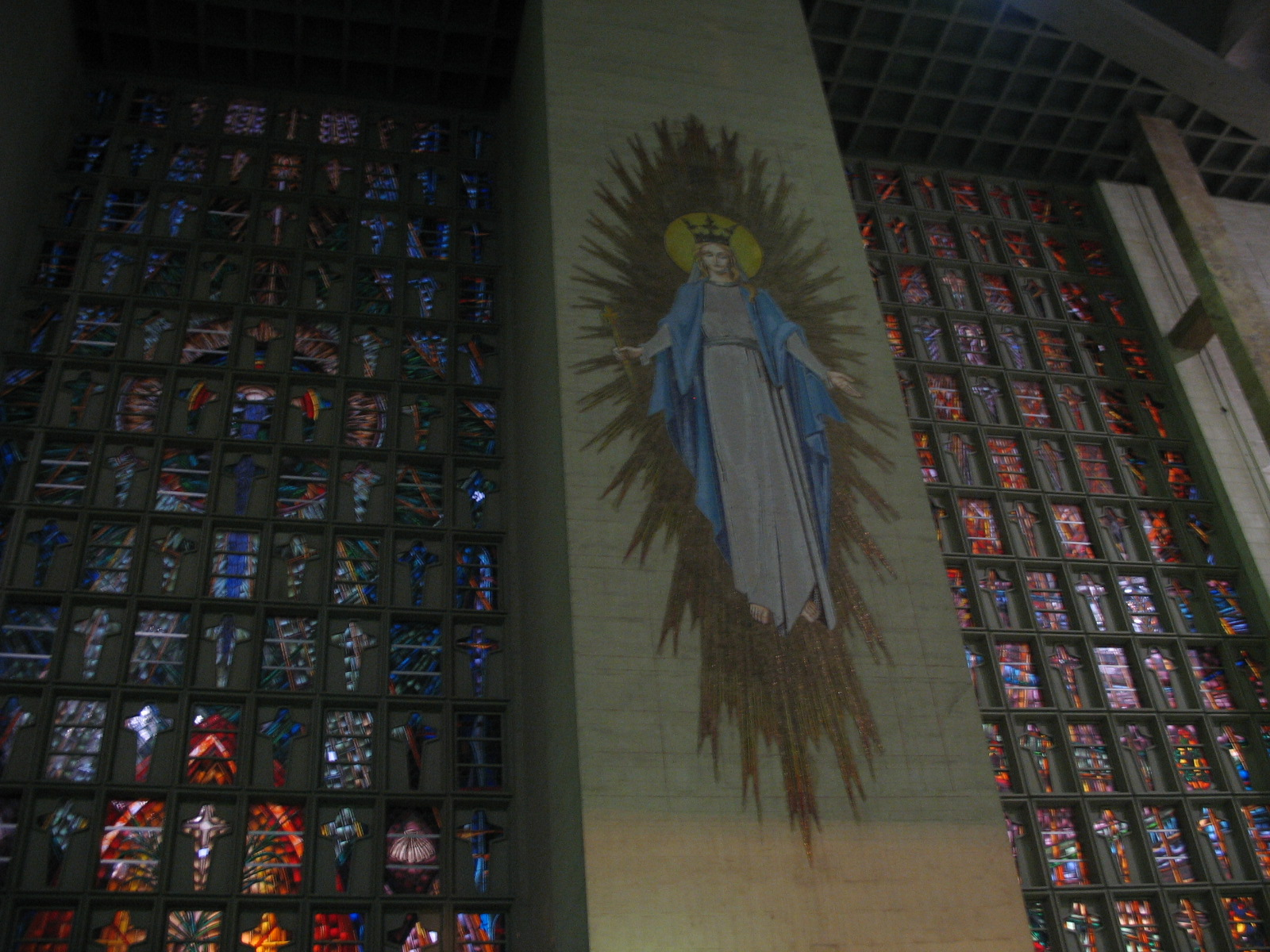 Vitrales catedral Barranquilla